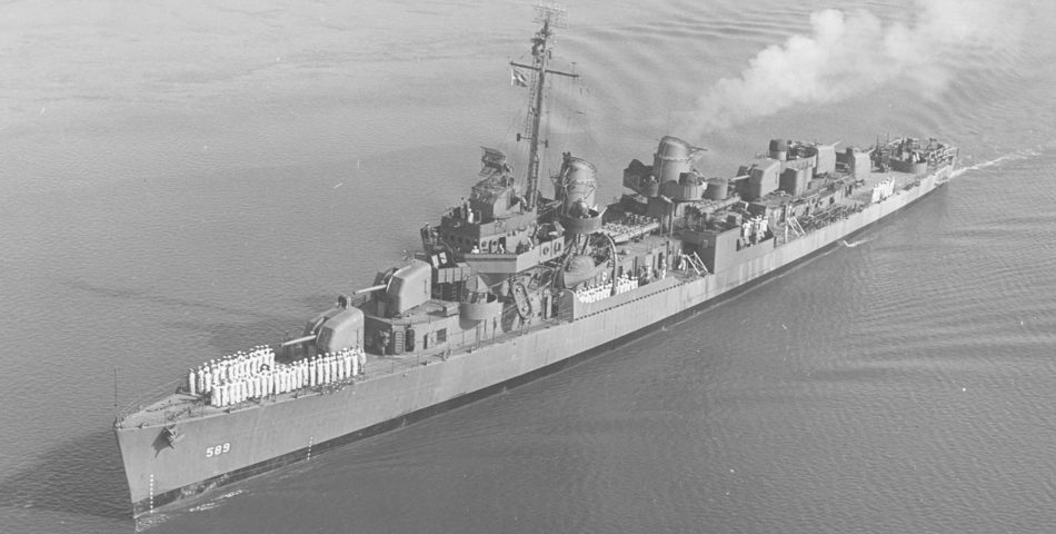 The U.S. Navy destroyer USS Izard (DD-589) off the Charleston Navy Yard, Ssouth Carolina (USA), on 21 June 1943.